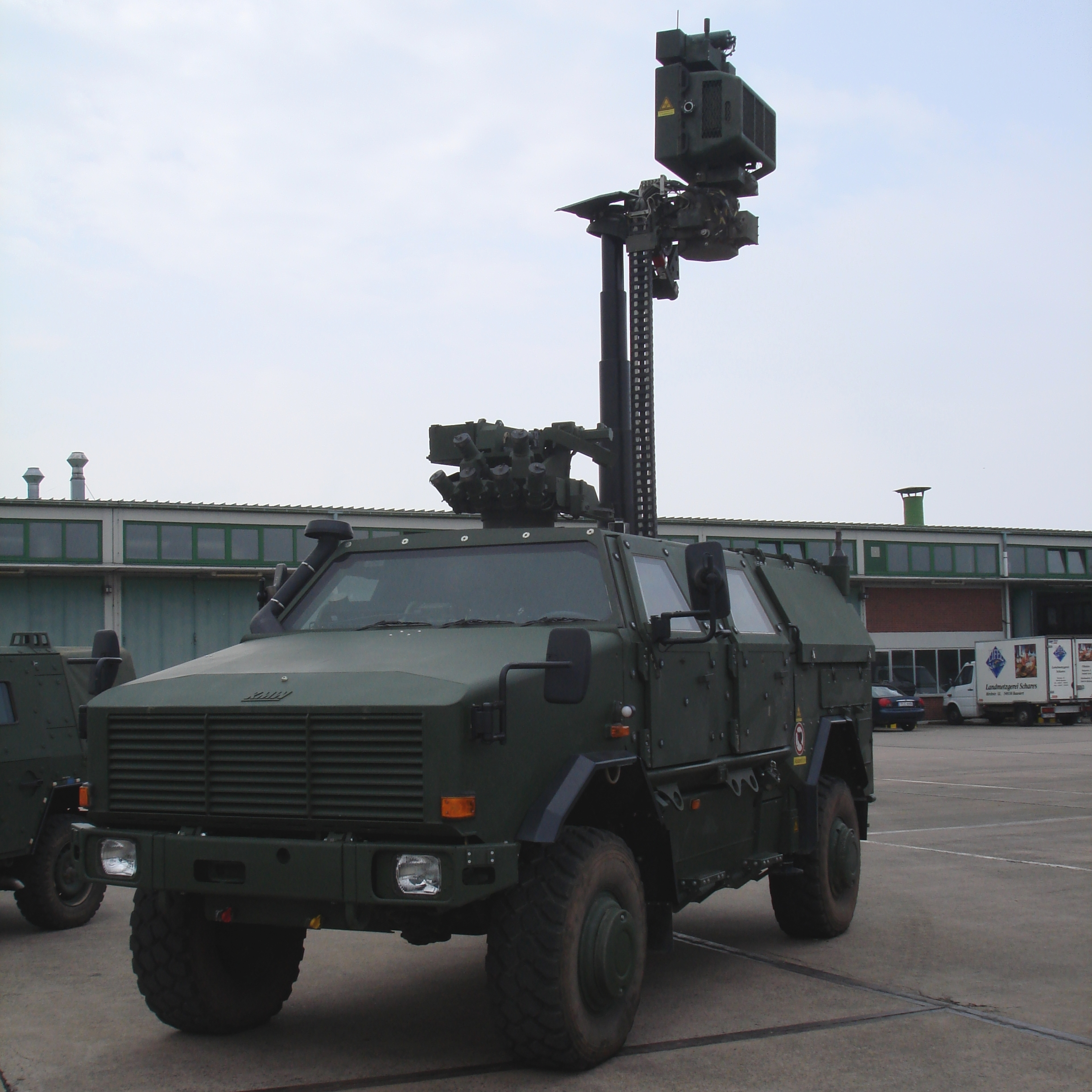 ATF Dingo 2 with ground surveillance radar (BÜR) from EADS.